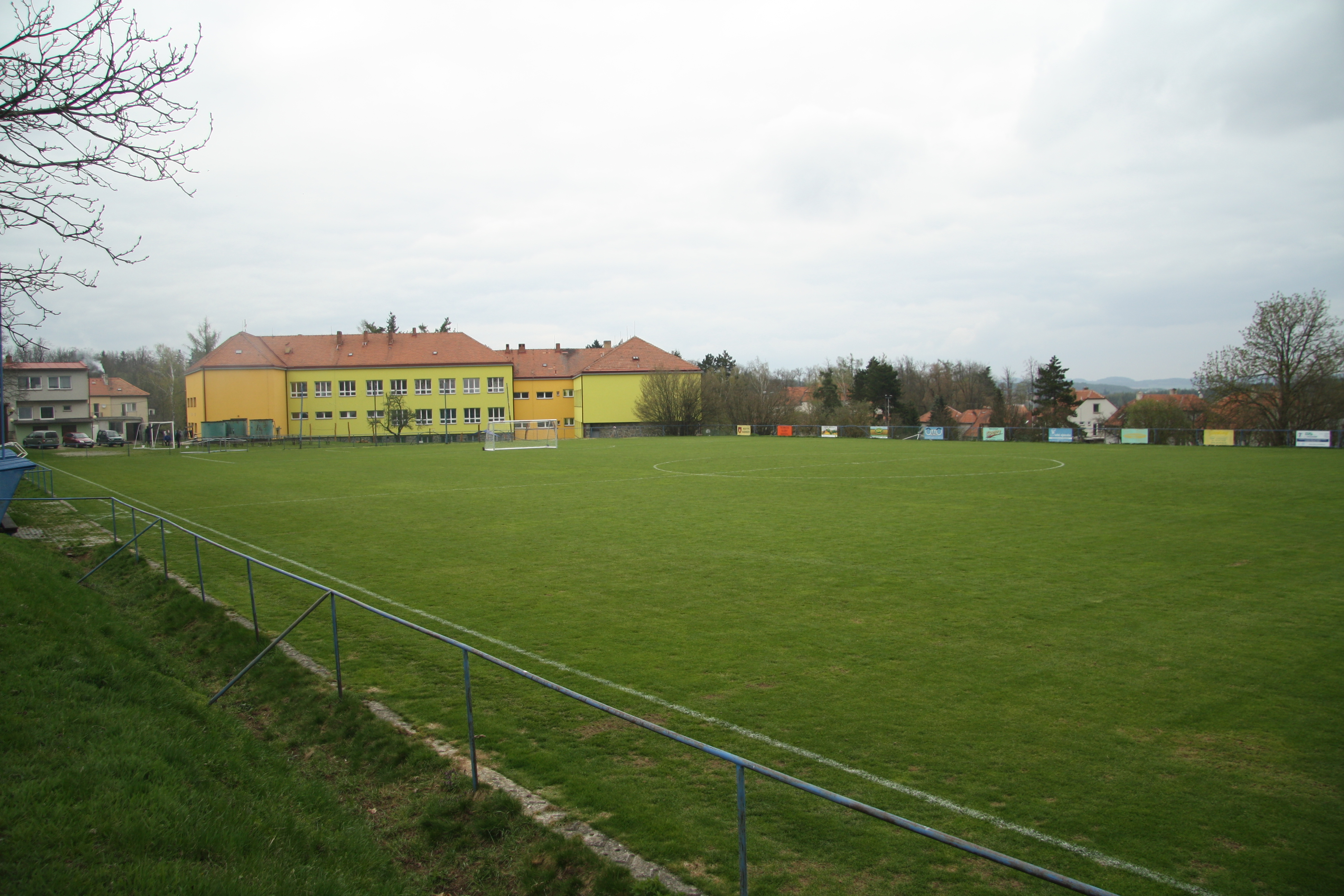 Overview of soccer playfield in Budišov, Třebíč District.